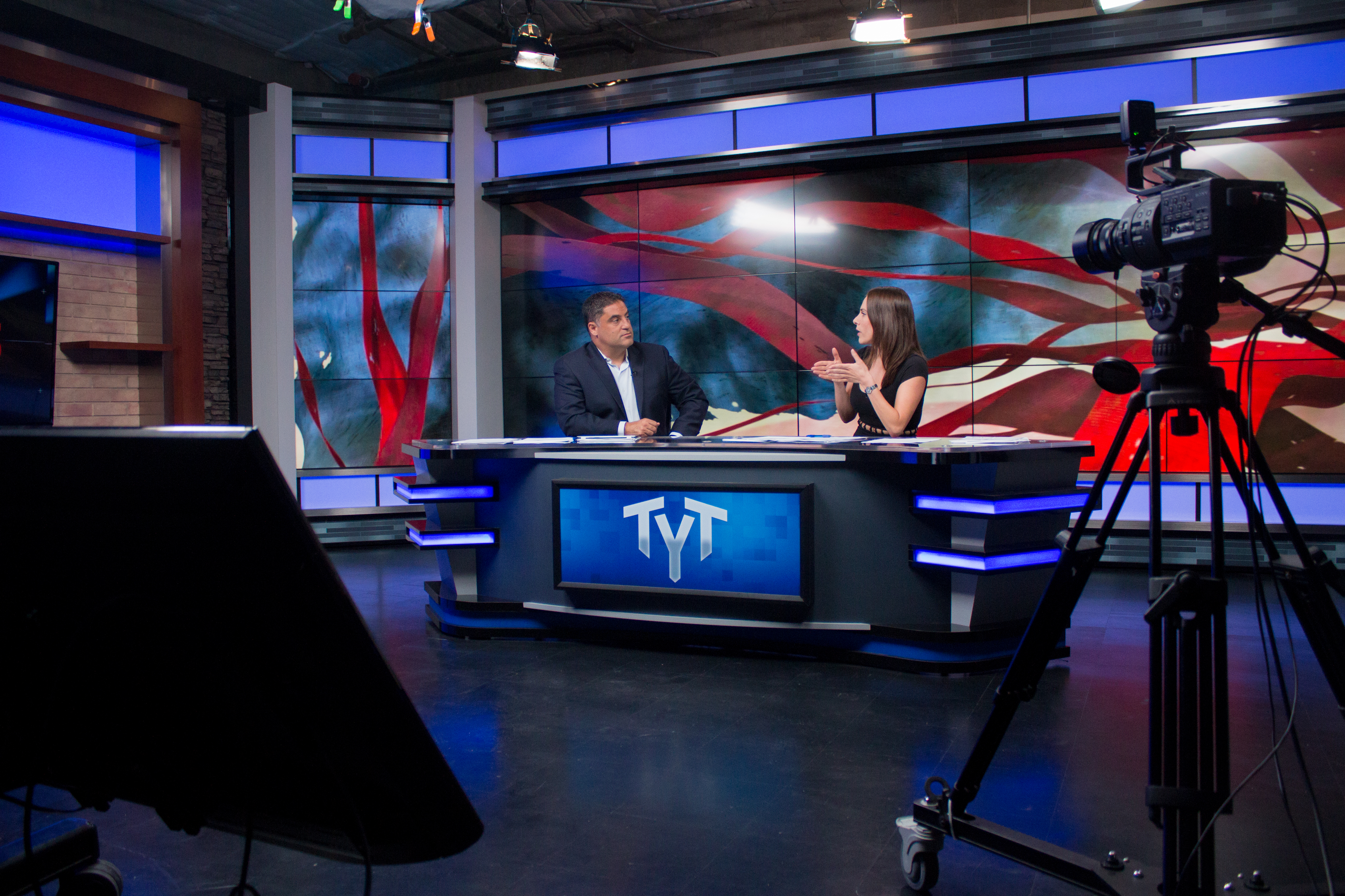 Ana Kasparian and Cenk Uygur in a discussion while hosting The Young Turks live streaming show on June 23, 2015.